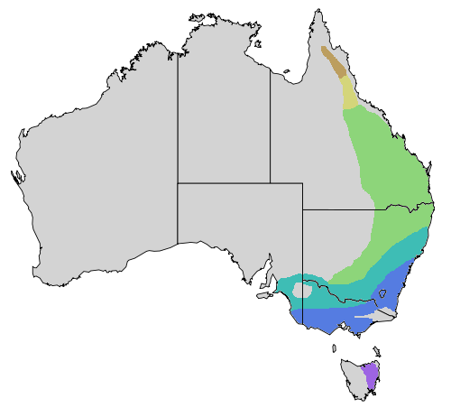 Range map of four subspecies and intermediate zones of Noisy Miner (Manorina melanocephala) as taken from: Schodde, Richard; Mason, Ian J. (1999) The Directory of Australian Birds: Passerines. A Taxonomic and Zoogeographic Atlas of the Biodiversity of Birds in Australia and its Territories, Collingwood, Australia: CSIRO Publishing, p. 266 tan = ssp. titaniota green = ssp. lepidota blue = ssp. melanocephala violet = ssp. leachi yellow, aqua = intermediate zones Base map of Australia was File:Australia map, States.svg